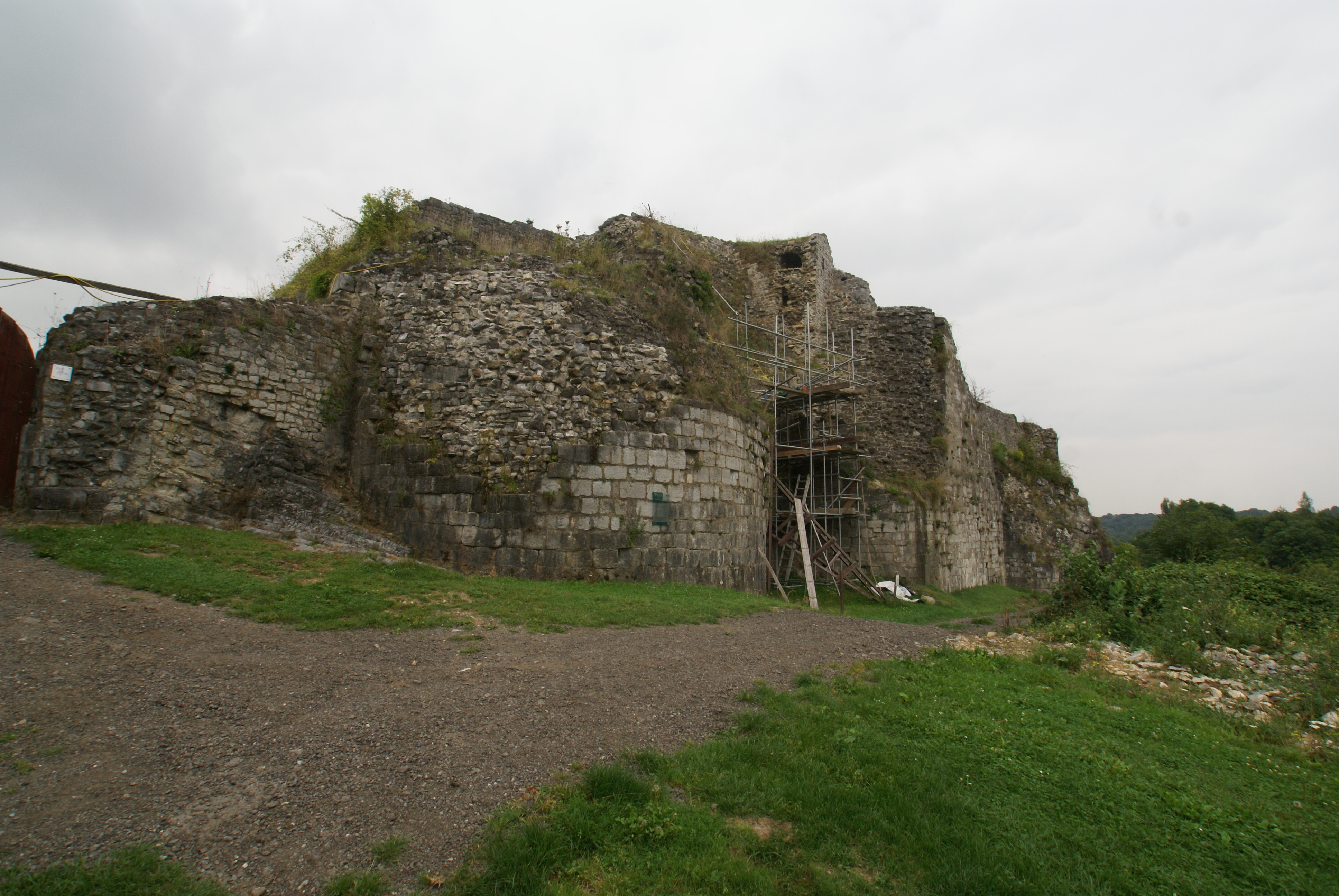 Wandre (Moha), Belgium: Ruins of the Castle